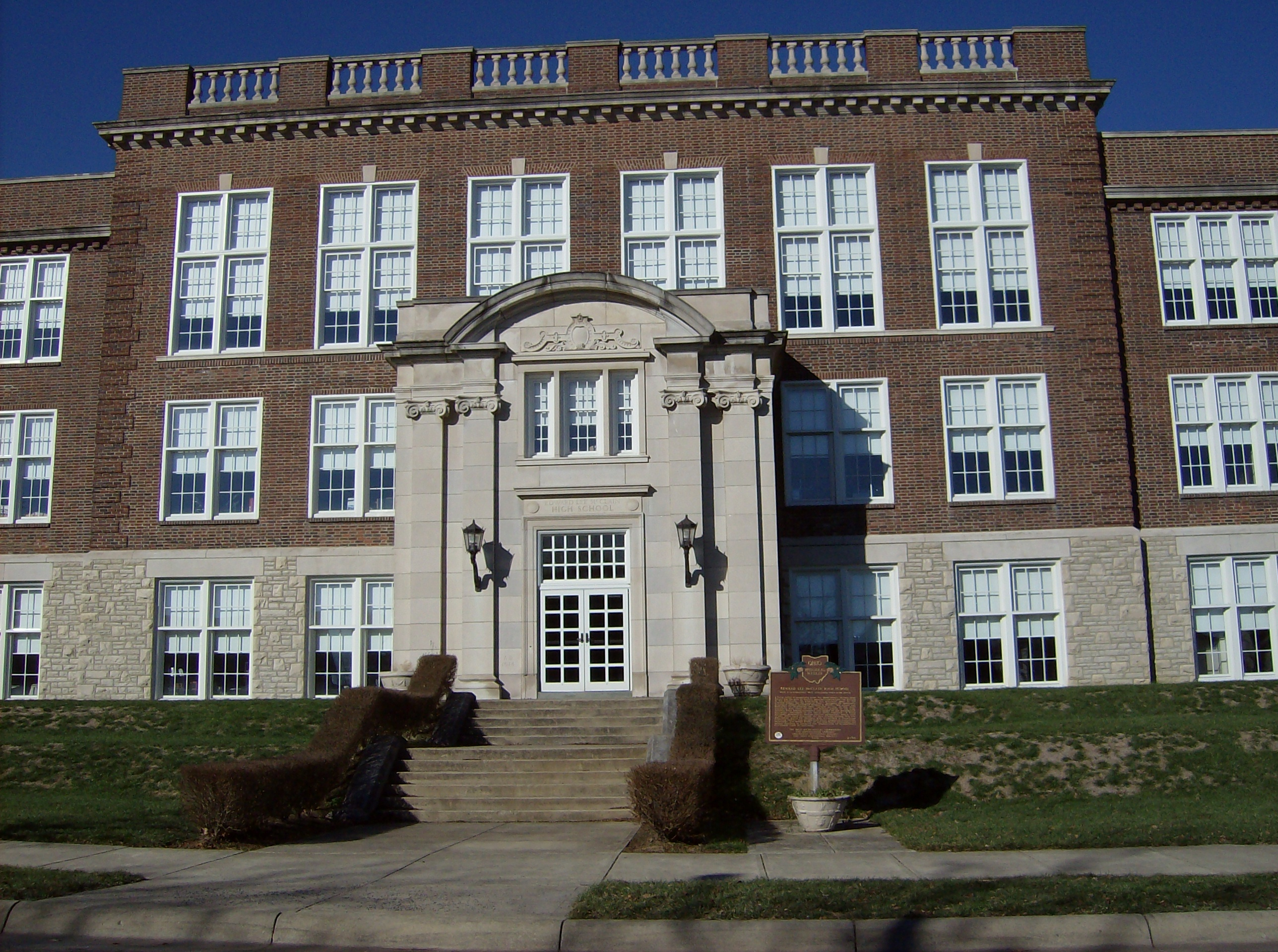 Entrance to Edward Lee McClain High School in Greenfield, Ohio, United States. Picture taken from Jefferson Street (State Route 28).